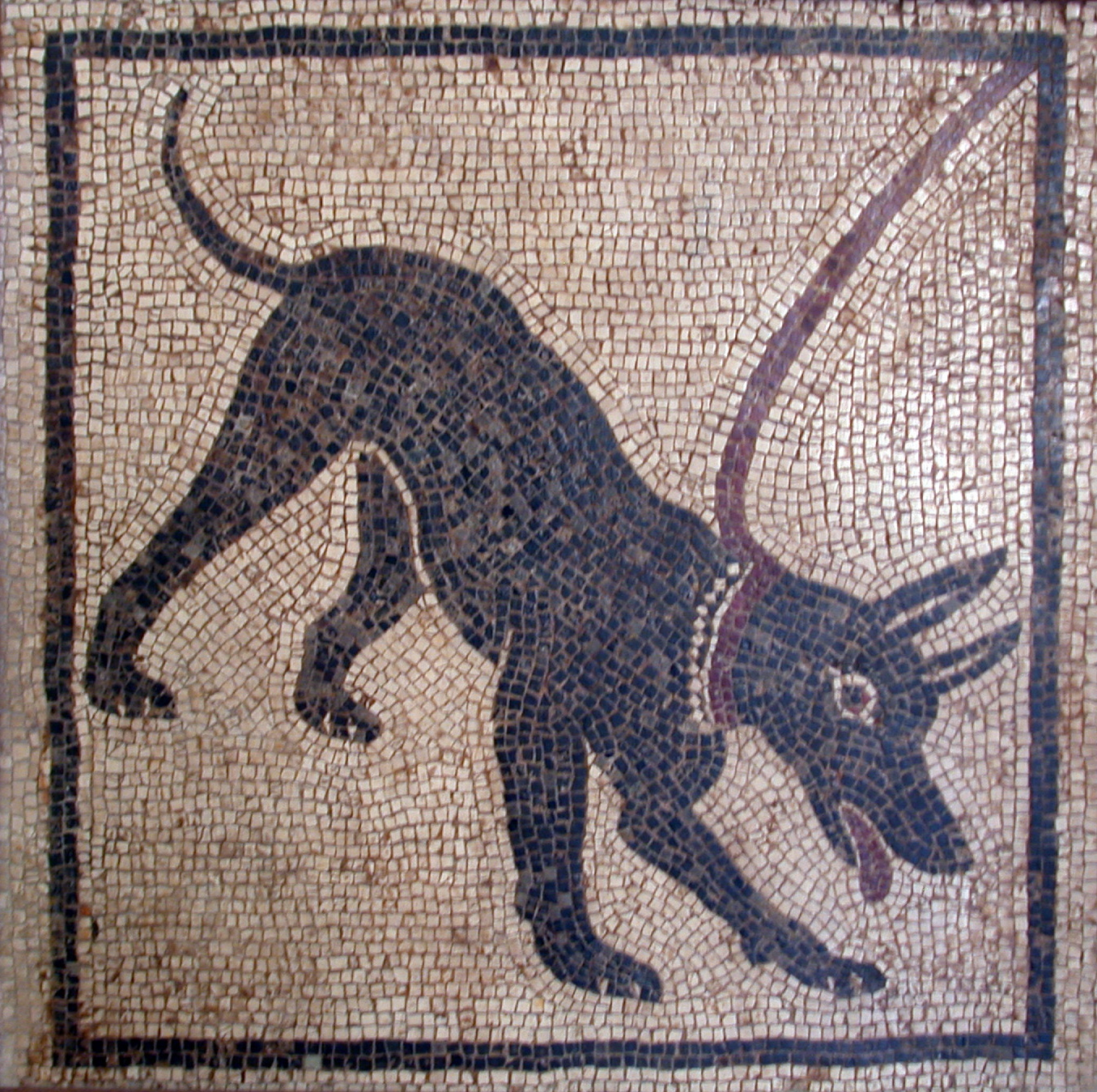 ‘Cave canem’ (beware of the dog) mosaic.